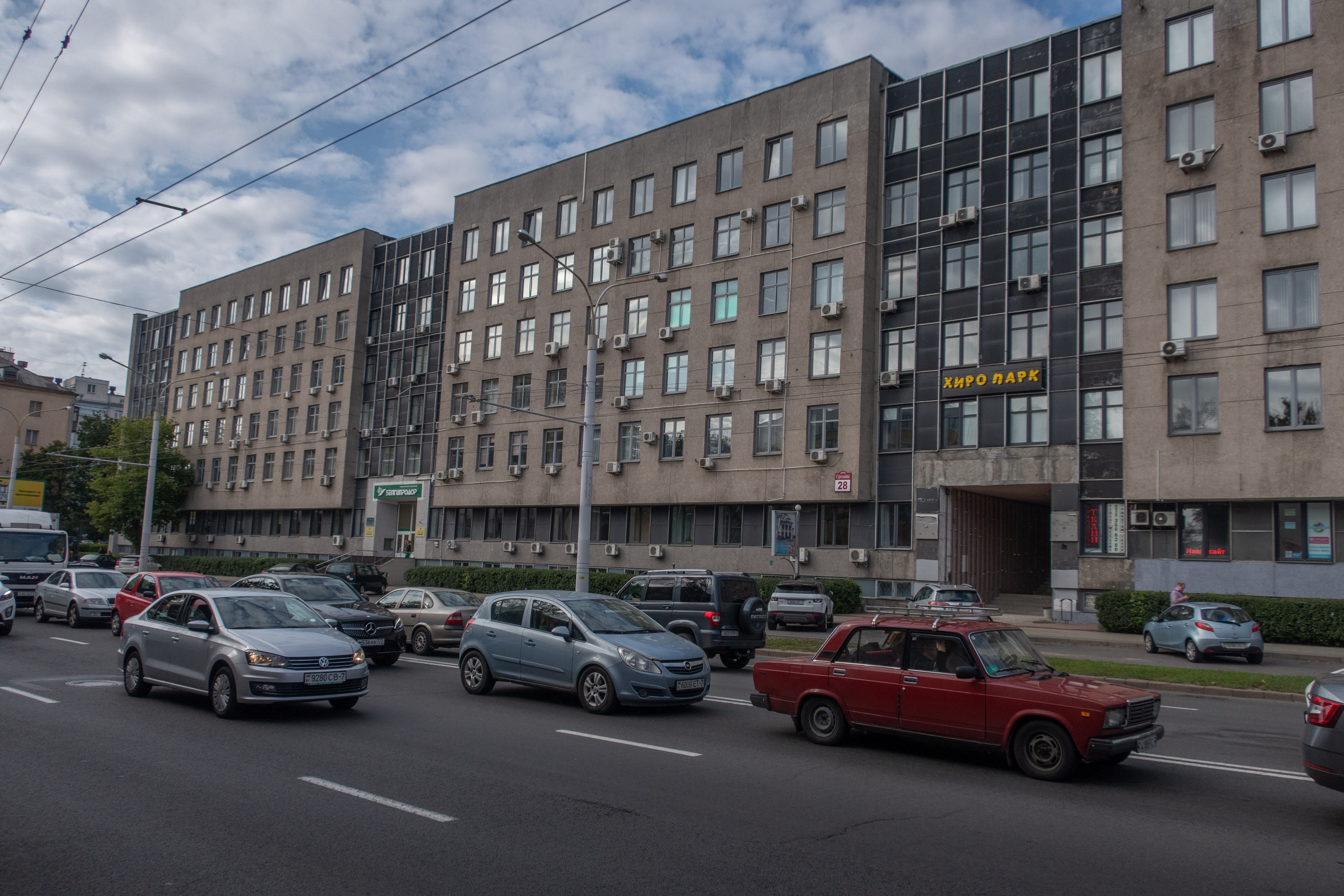 Surhanava street. Minsk, Belarus